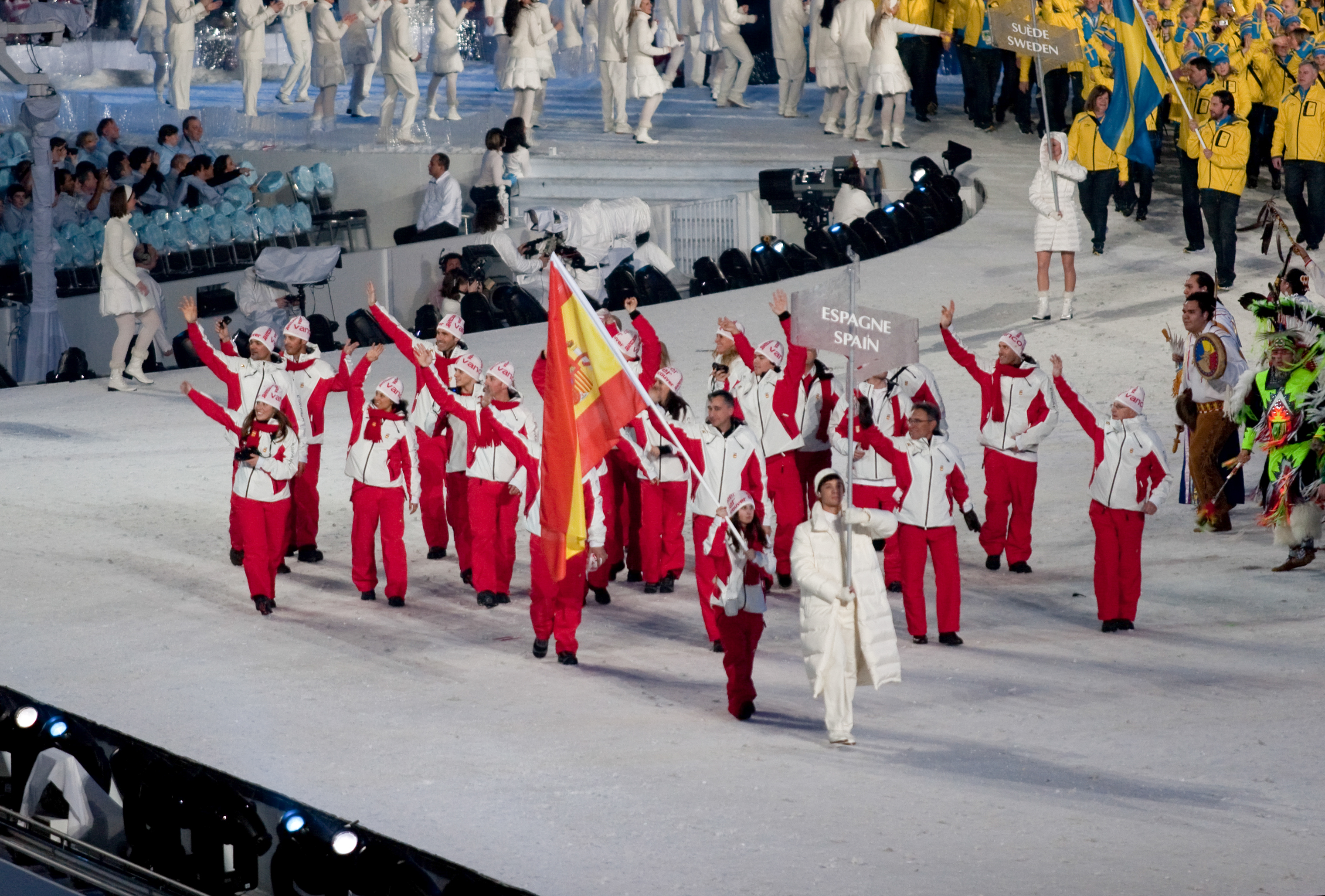 The athletes from Spain entering the stadium at the opening ceremonies of the 2010 Winter Olympics